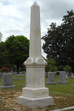 Tom W. Talbot Memorial At Mount Hope Cemetery in Florence, South Carolina.